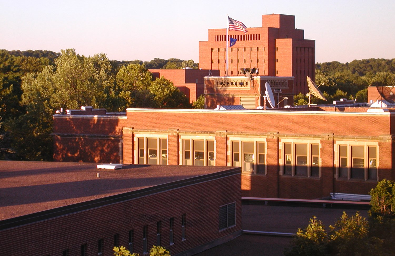 This is the University of Wisconsin, Eau Claire.